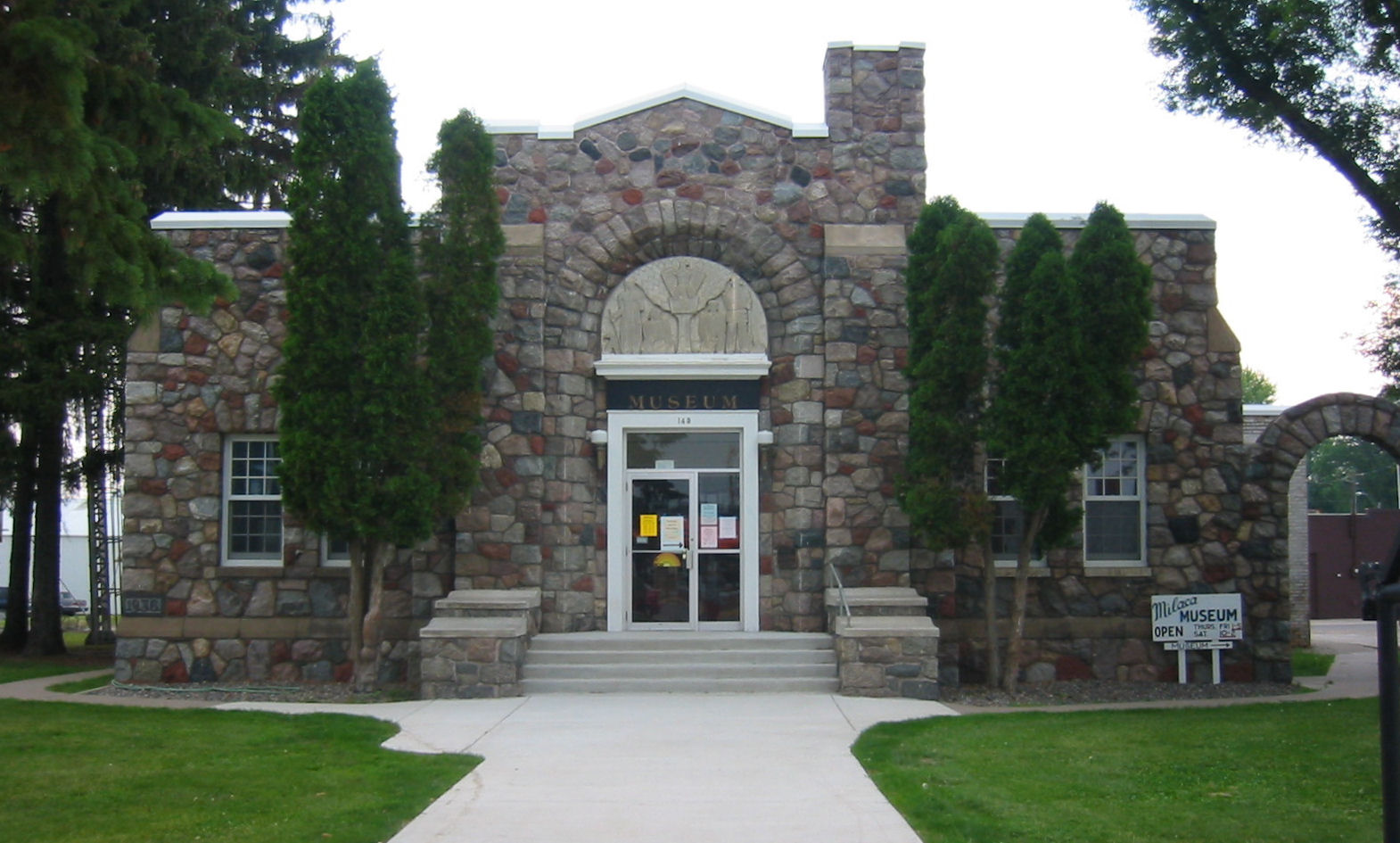 The former city hall building in Milaca, Minnesota. It is now operated as a museum and is on the National Register of Historic Places.